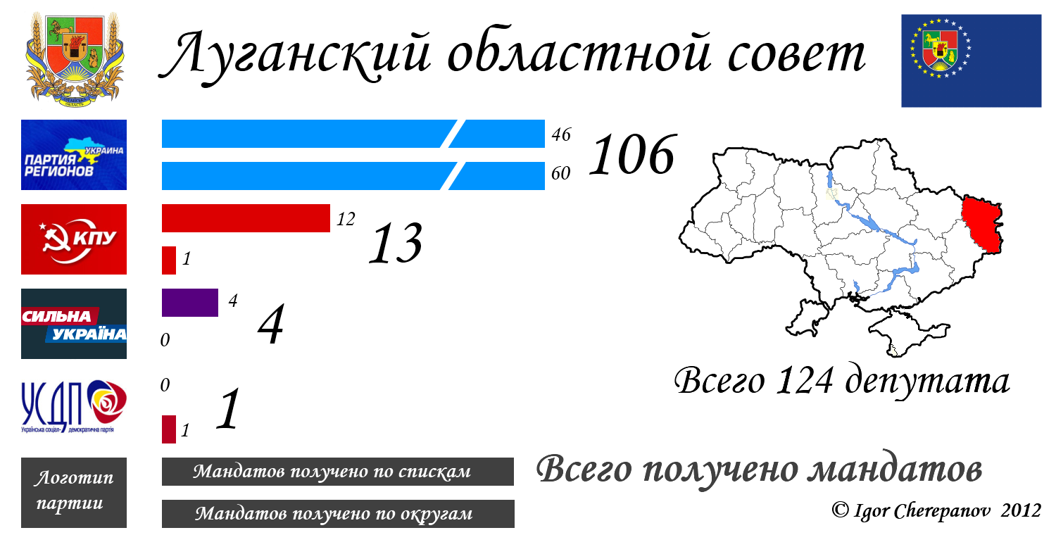 Results of Lugansk Oblast local election 2010